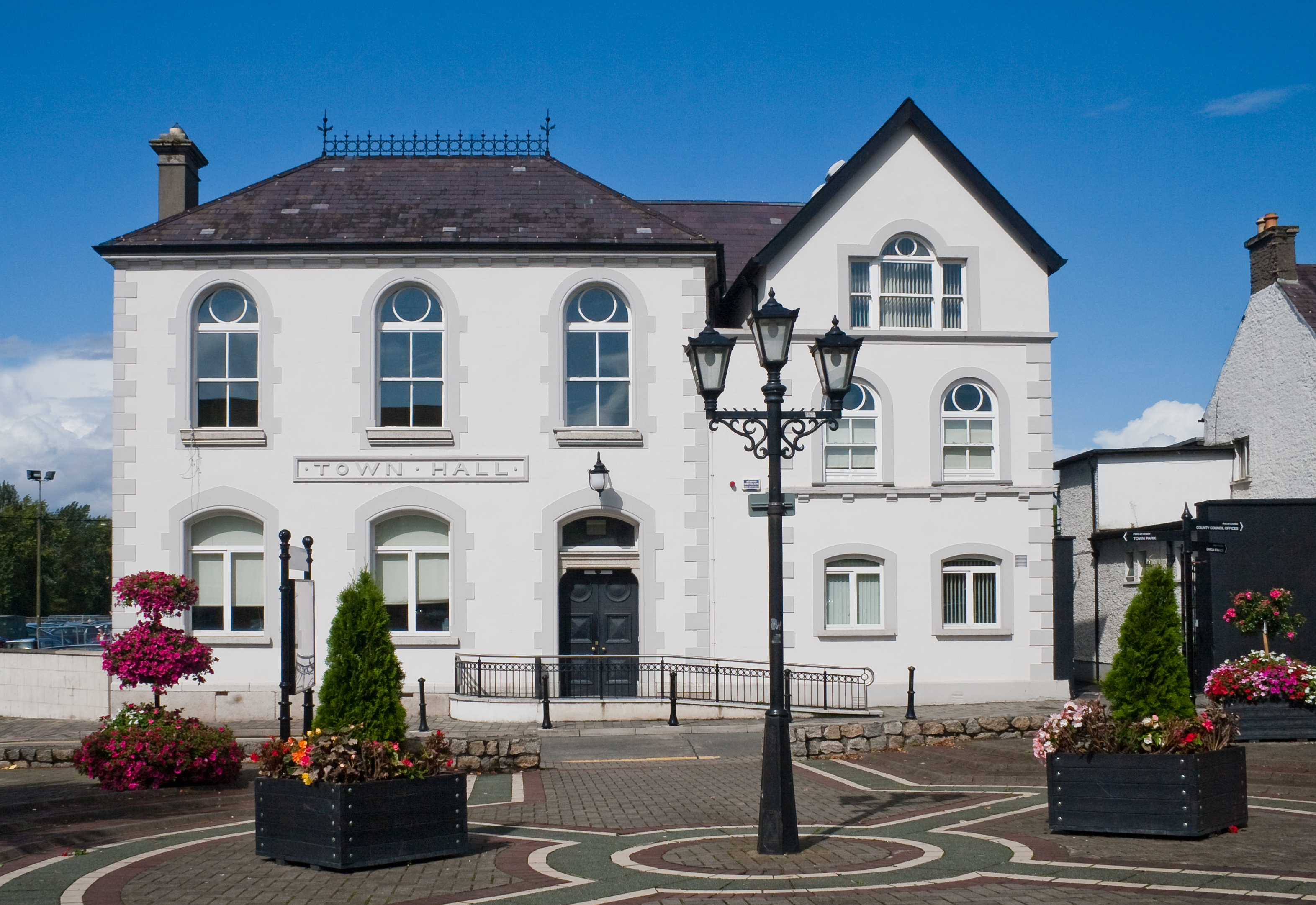 Carlow Town Hall, designed by the architect William Hague, contracted to Messrs Connolly & Son in January 1885, supervised by James Byrne (until July 1885) and Mr. Mullins (beginning from August 1885), opened on 30 March 1886, and refurbished in 2005. (See here for a history of this building.)